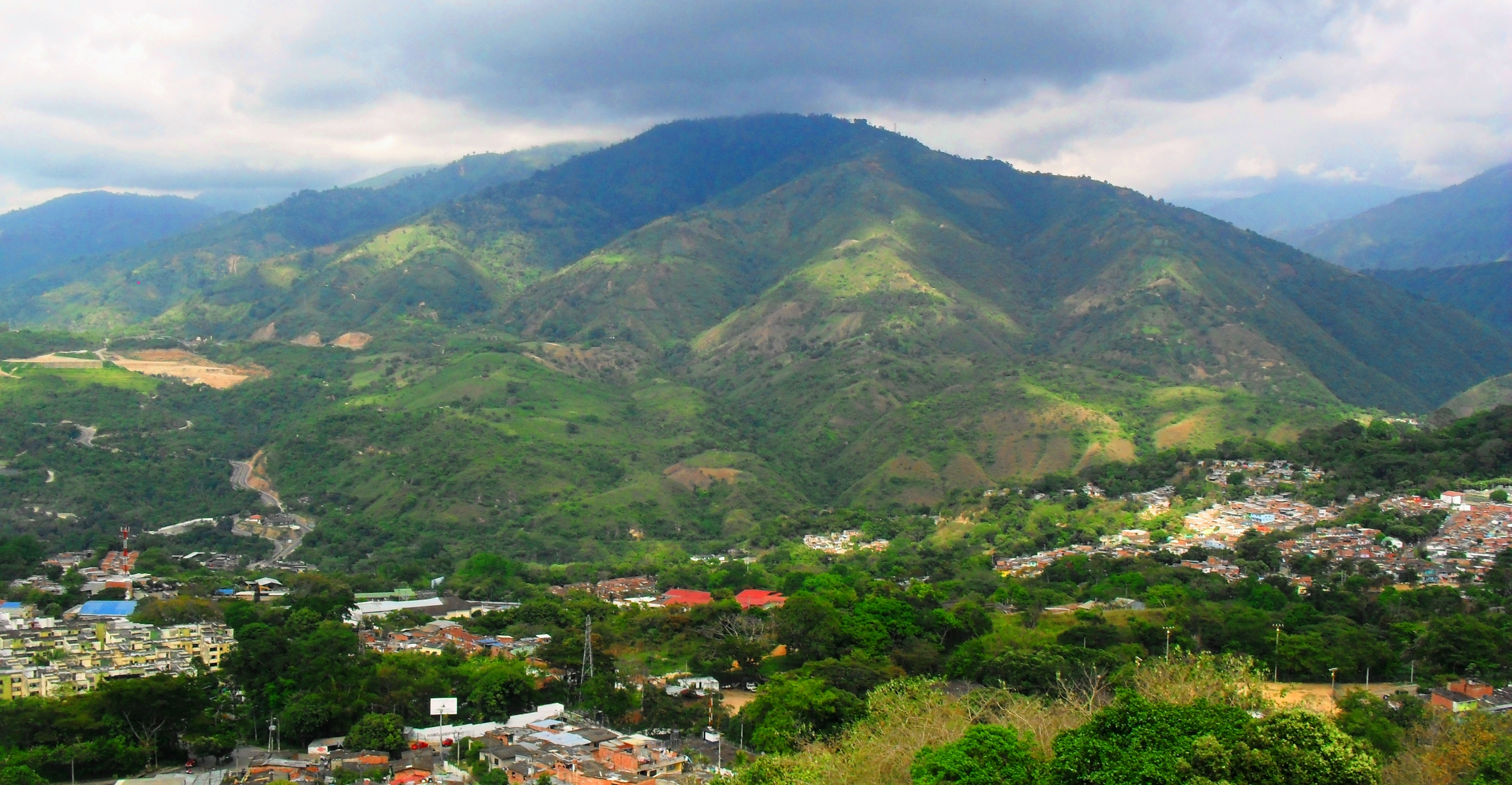 Northeaster Bucaramanga